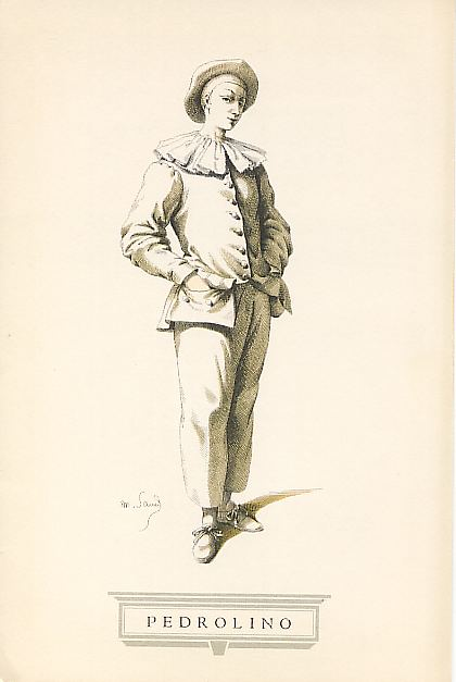 Italian mask of Pedrolino